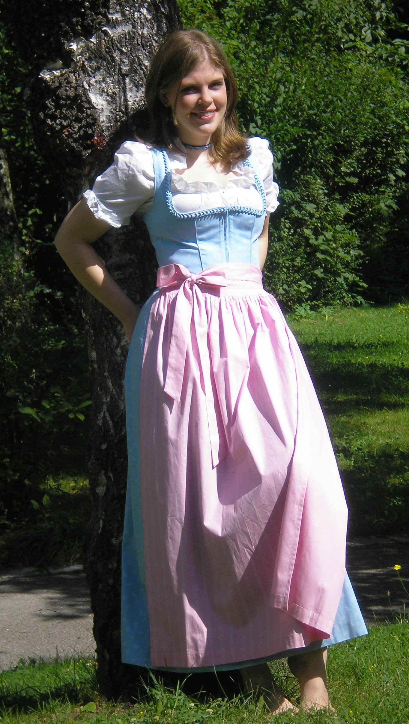 Dirndl with lacing and green apron